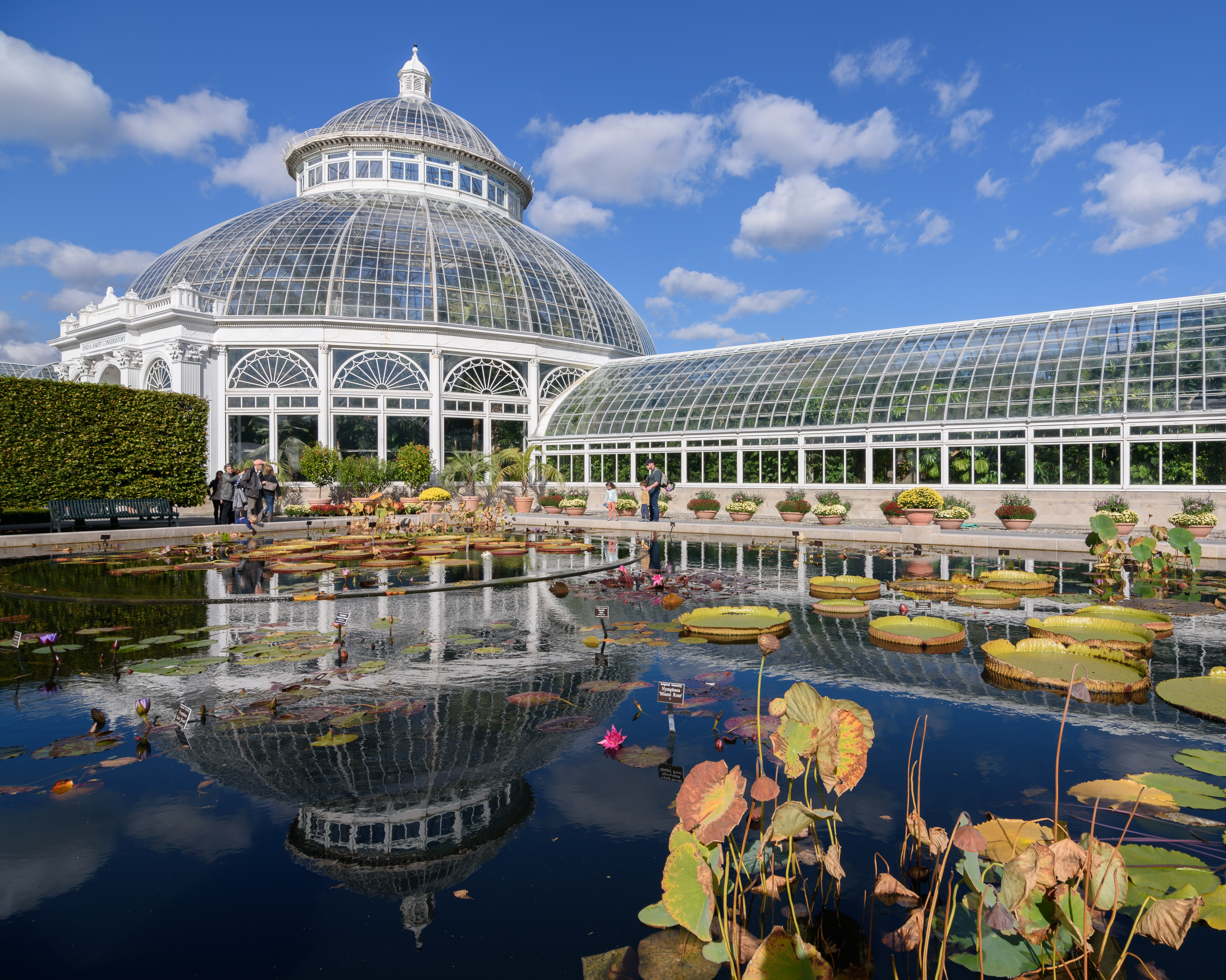 Enid A. Haupt Conservatory, New York Botanical Garden, The Bronx, New York City.